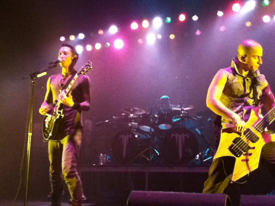 Trivium live in concert in Los Angeles.